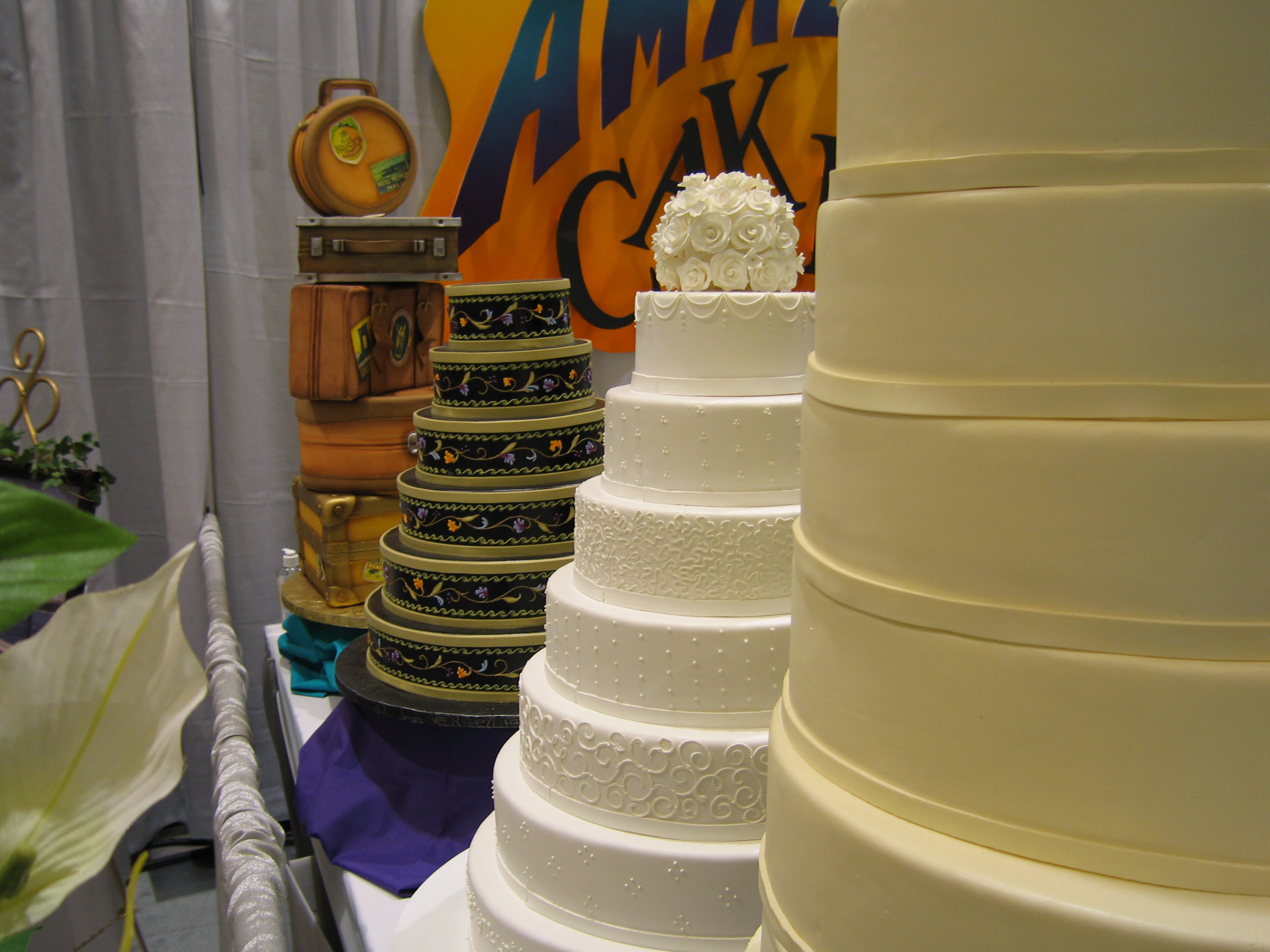 At the Seattle Bridal Show